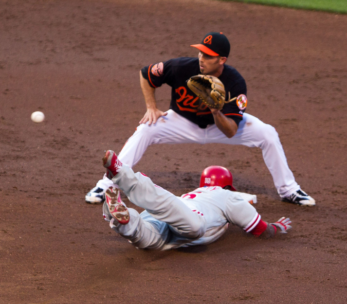 John Mayberry, Jr. slides into second base while JJ Hardy seeks to catch the throw and apply the tag in a game on June 8, 2012